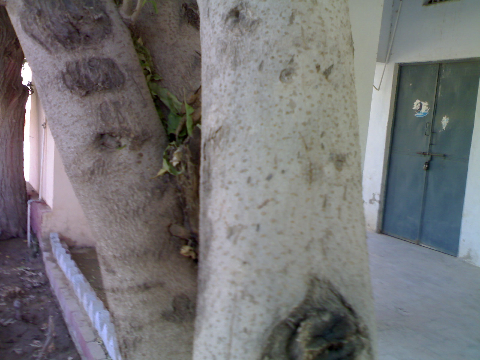 It is taken and uploaded by me.(user:Shemaroo who is Sivender Singh mo.09829800543).It shows stem of Tecomella. Shemaroo (talk) 15:43, 21 October 2011 (UTC)